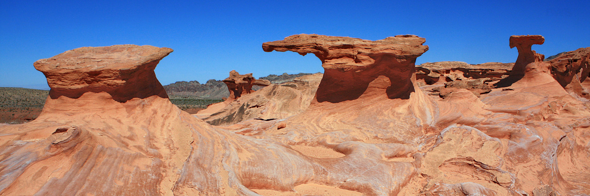 Little Finland, Nevada, USA